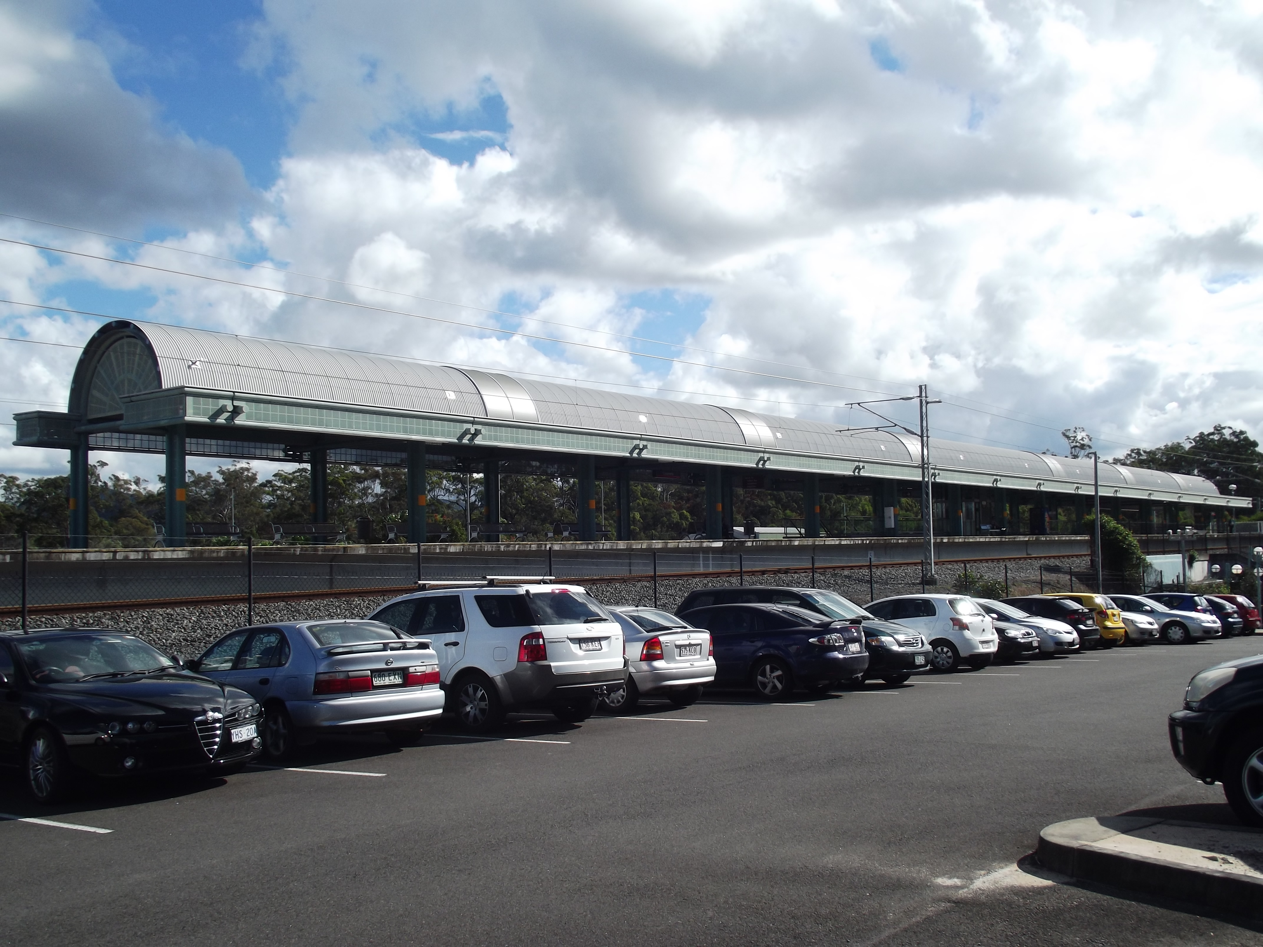 A photo of the Coomera railway station, operated by TransLink, located in Gold Coast, Australia.